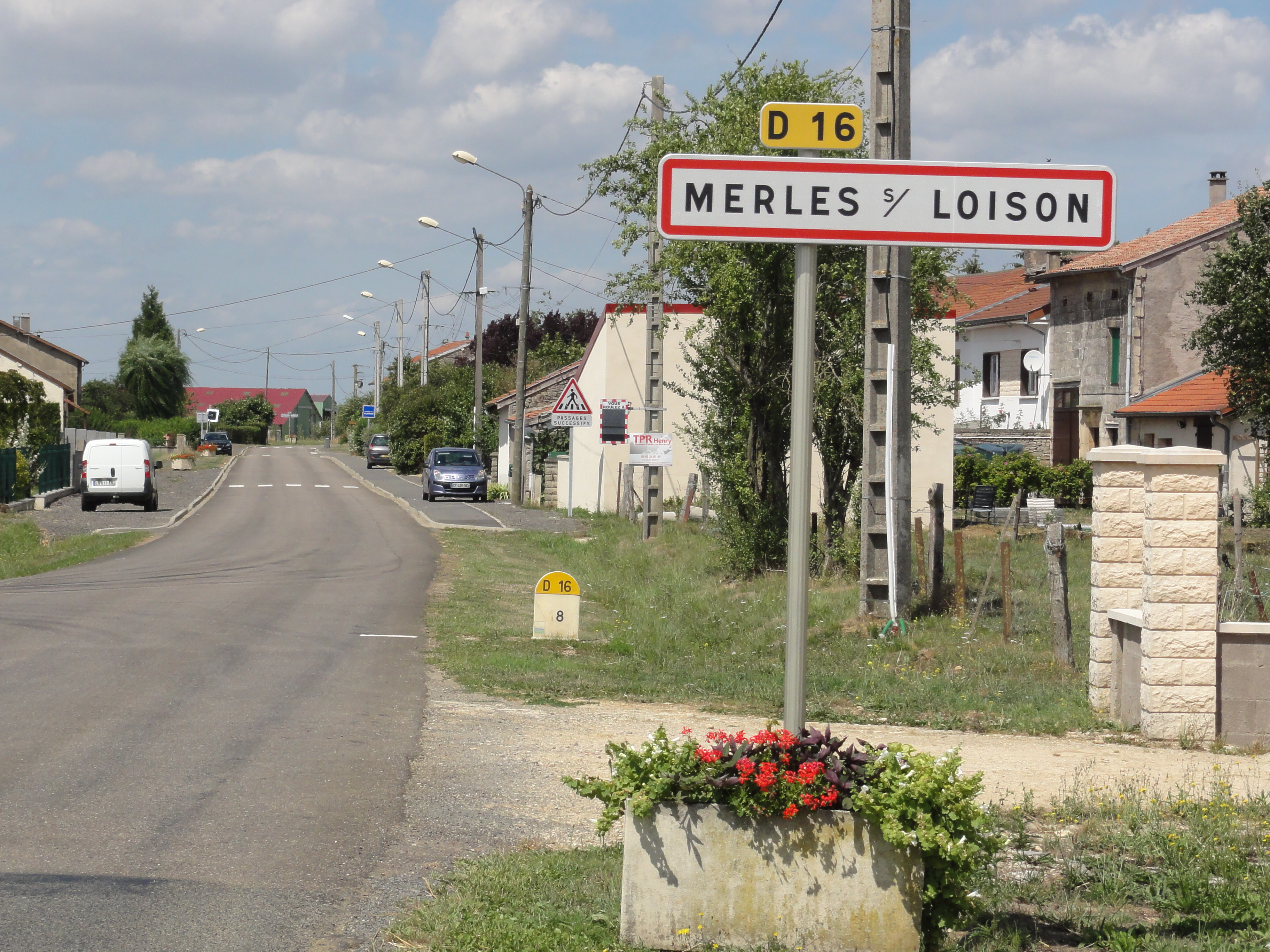 Merles-sur-Loison (Meuse) city limit sign